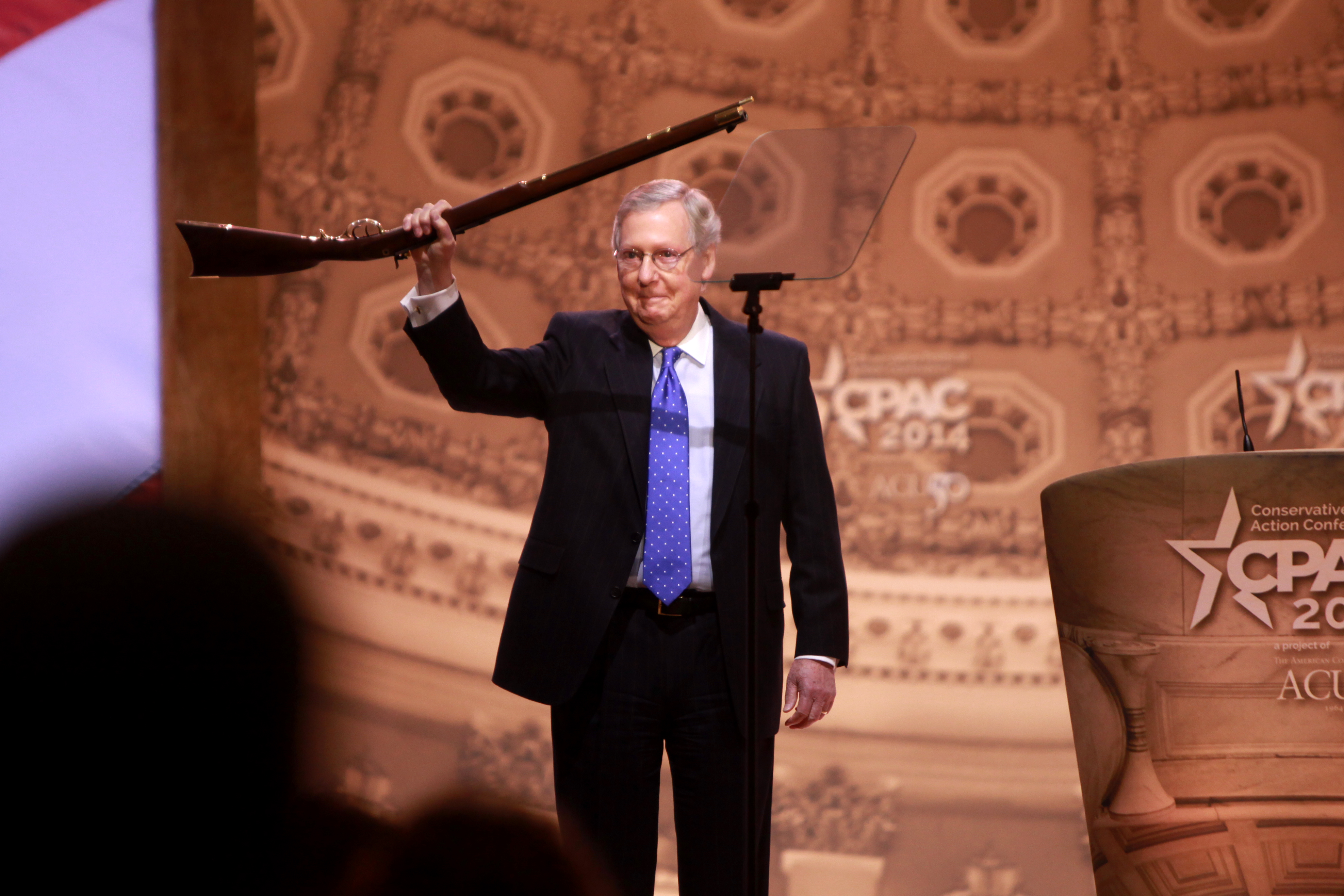 Mitch McConnell speaking at CPAC 2014 in Washington, DC.